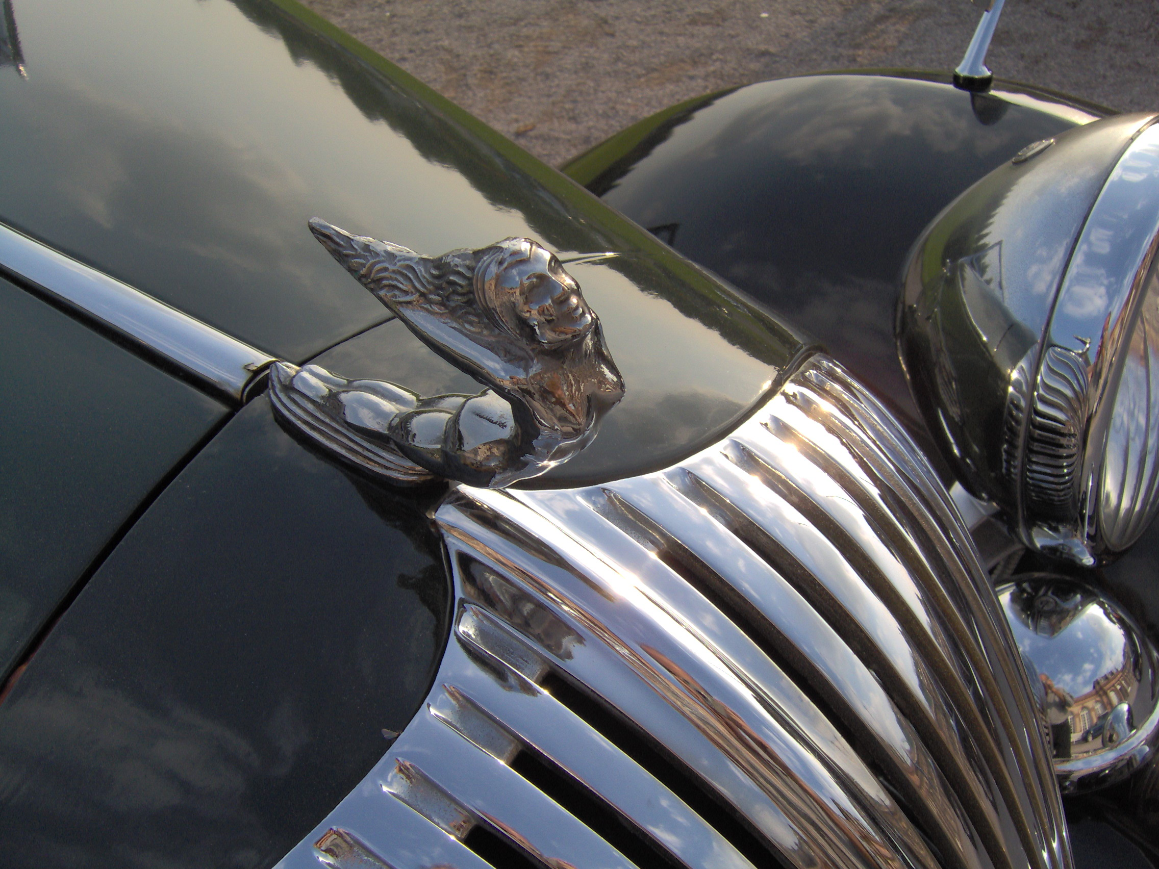 Triumph Dolomite Maskot. 1938